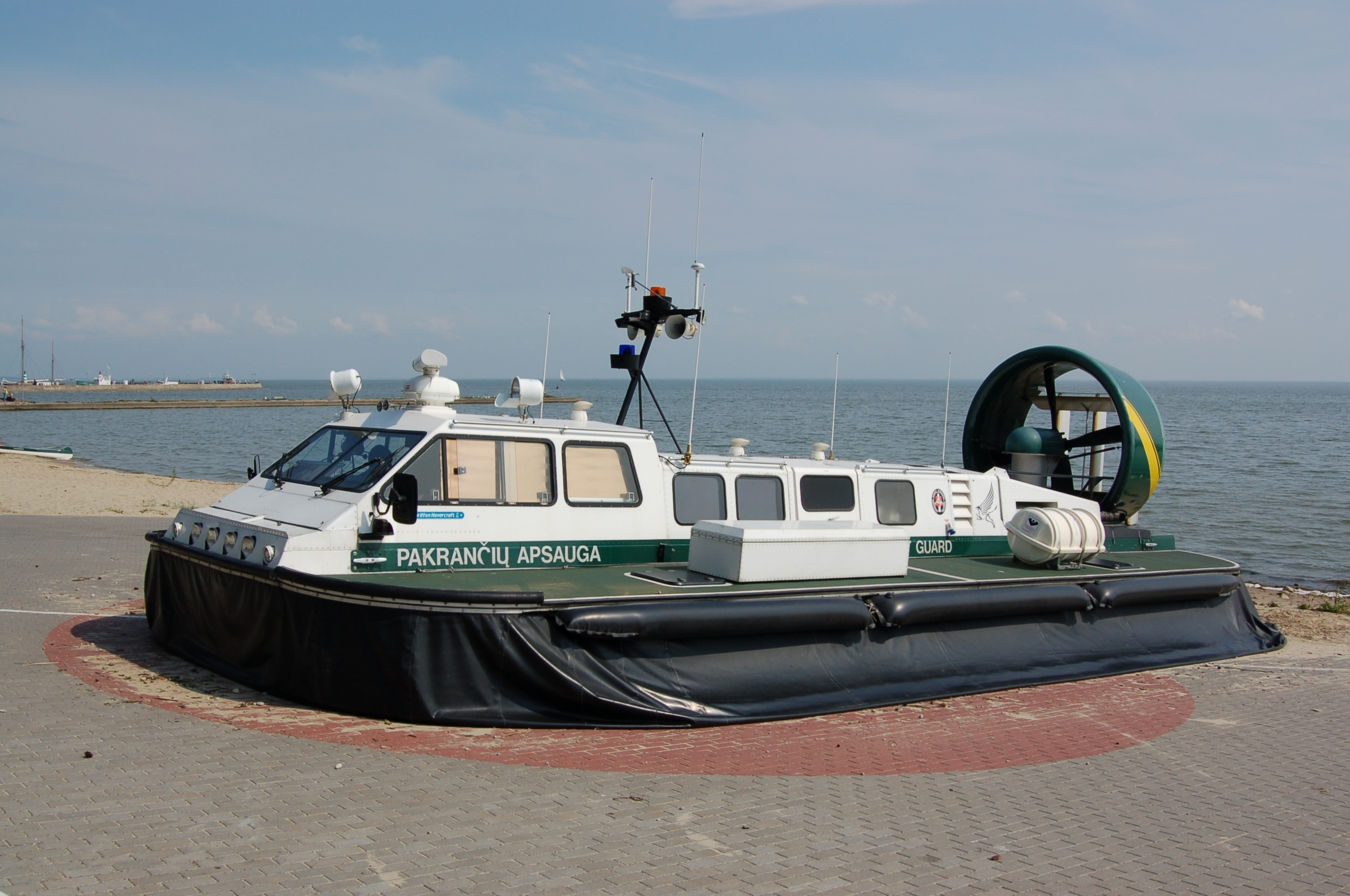 A Griffon 2000TDX Mk II hovercraft, with engine off and flexible skirt deflated. The hovercraft, Christina, was built in 2000 for the Lithuanian State Border Police (Pasienio Policija), which had been established in 1996 to serve as a form of Coast Guard (Pakrančių Apsauga). The photograph was taken at Nida, on the Curonian Spit; the body of water in the background is the Curonian Lagoon.